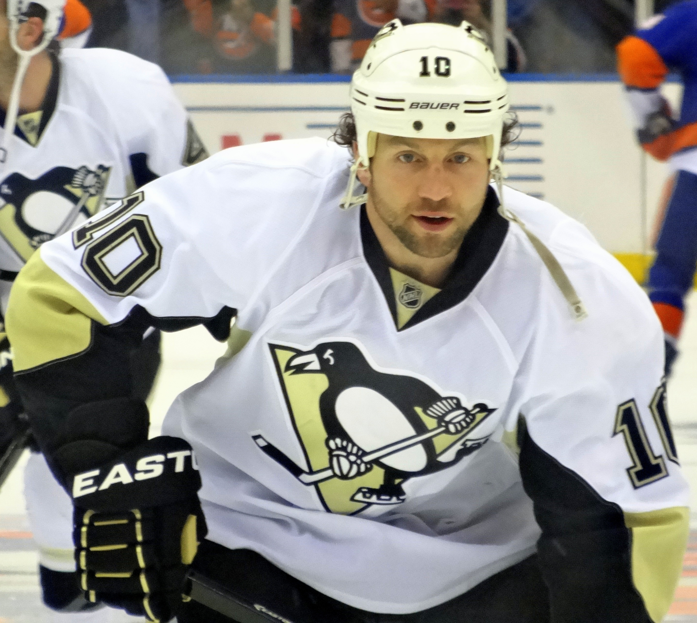 Pittsburgh Penguins forward Brenden Morrow during round one, game five of the 2013 Stanley Cup playoffs against the New York Islanders, May 9, 2013 at Consol Energy Center.